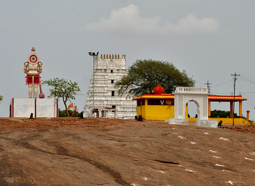 Temple at Keesaragutta in Keesara, Rangareddy district, Andhra Pradesh, India.